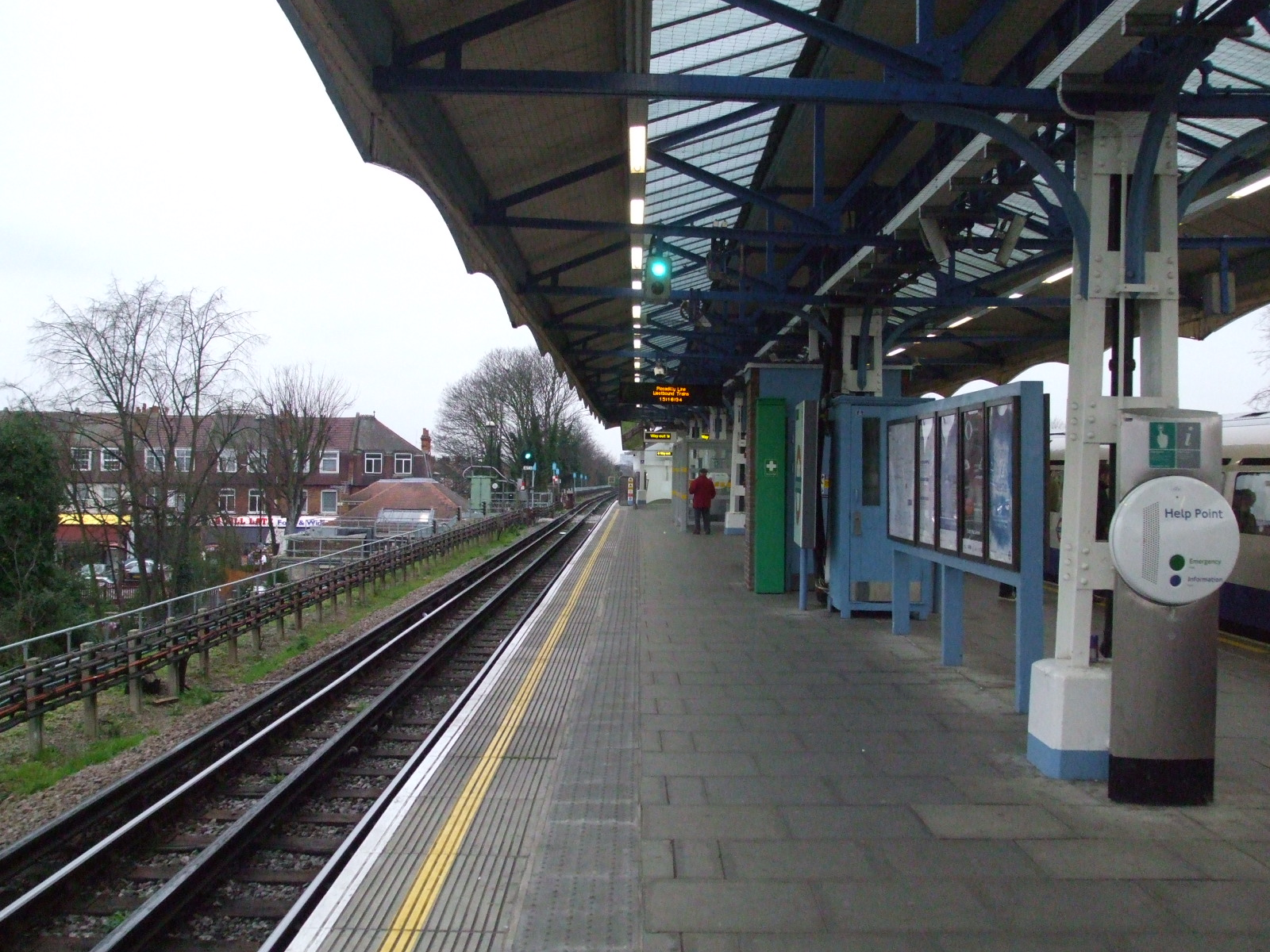 Looking westbound along Hounslow Central tube station island platform westbound face